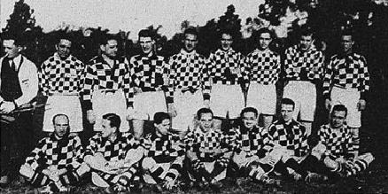 The Club Universitario de Buenos Aires rugby union squad before playing the final match of the second division championship in 1924.